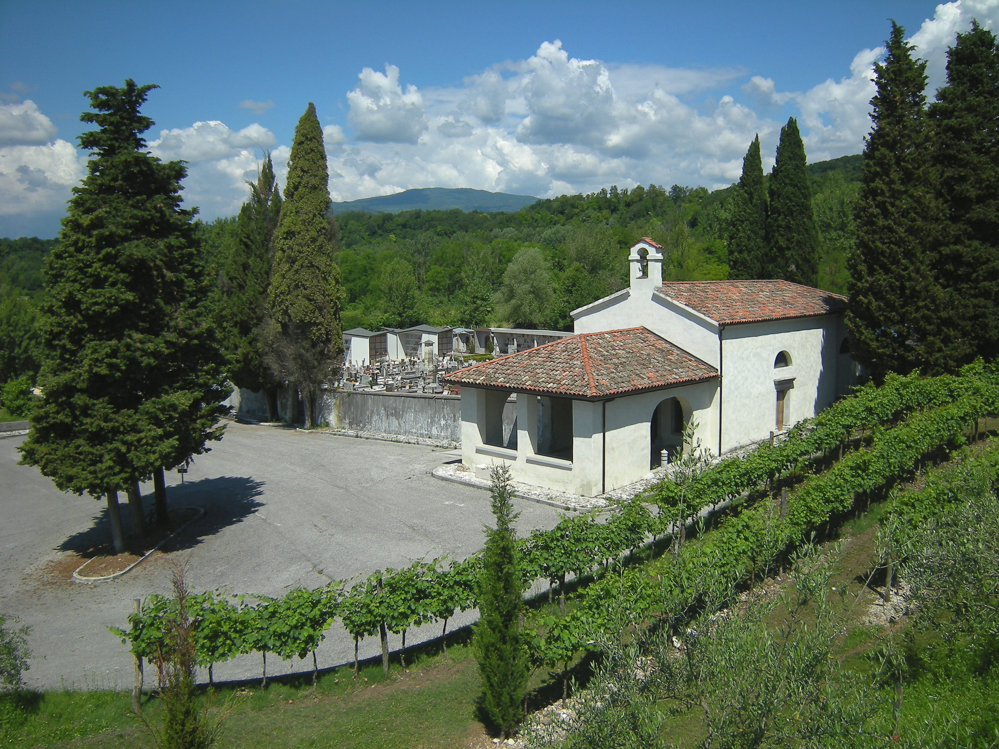 Church of the Holy Trinity - Pinzano al Tagliamento (Italy)